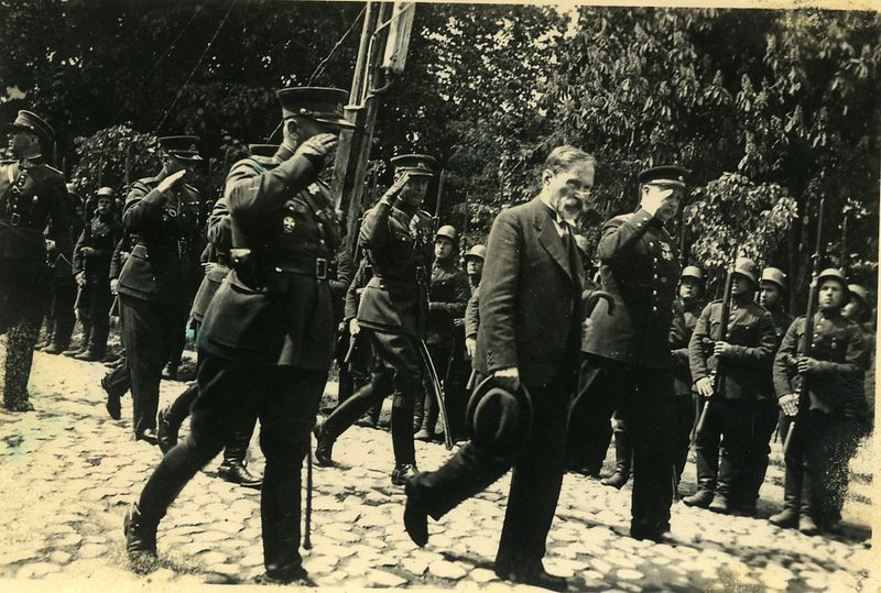 Chief of Ukmergė County Jurgelis Vladas accompanies President Antanas Smeton during his visit to Ukmergė.